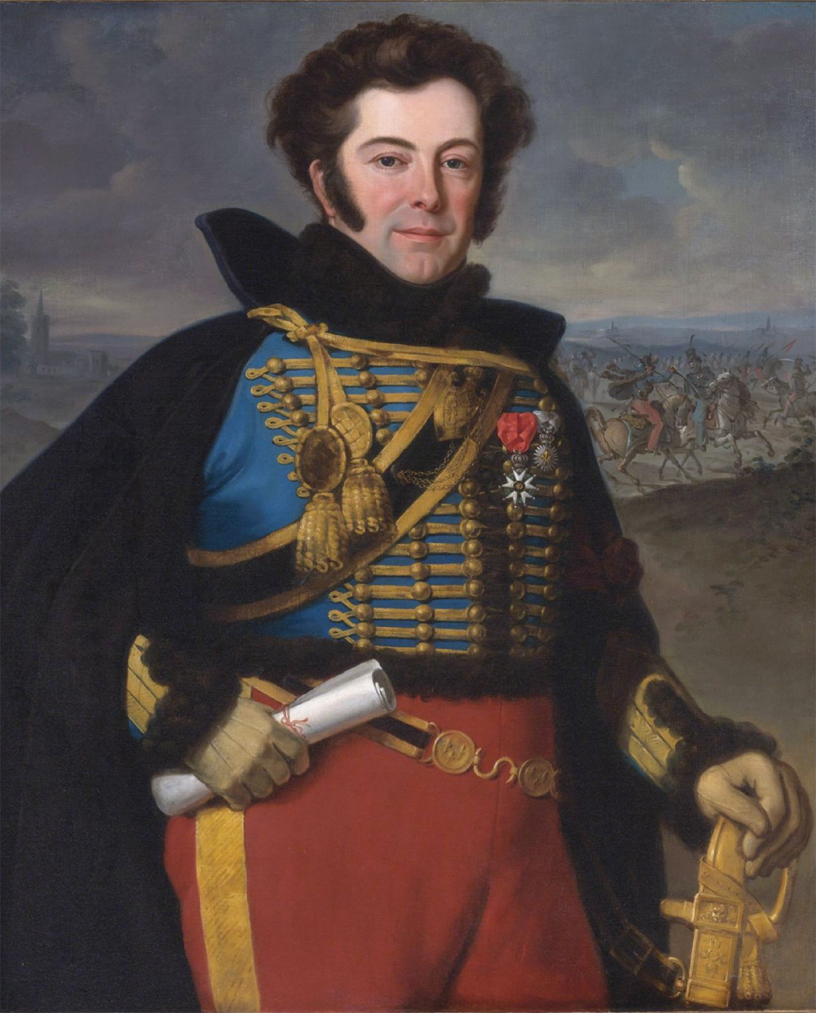 Colonel Auguste-Frederic-Bon-Amour, marquis de Talhouët 1818 100.3 by 83.8 cm. oil on canvas depicted with the medals he earned: the Légion d'honneur, and the Décoration du Lys also depicted on the left in the background on a brown horse battling a Cossack soldier on a white horse in the Battle of Borodino